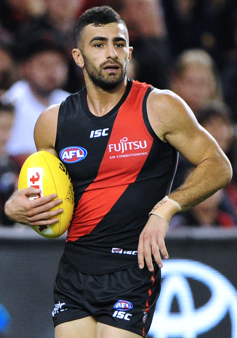 Adam Saad of Essendon during the 2018 AFL round 6 match between Essendon and Melbourne at Etihad Stadium on Sunday, 29 April 2018 in Melbourne, Victoria.